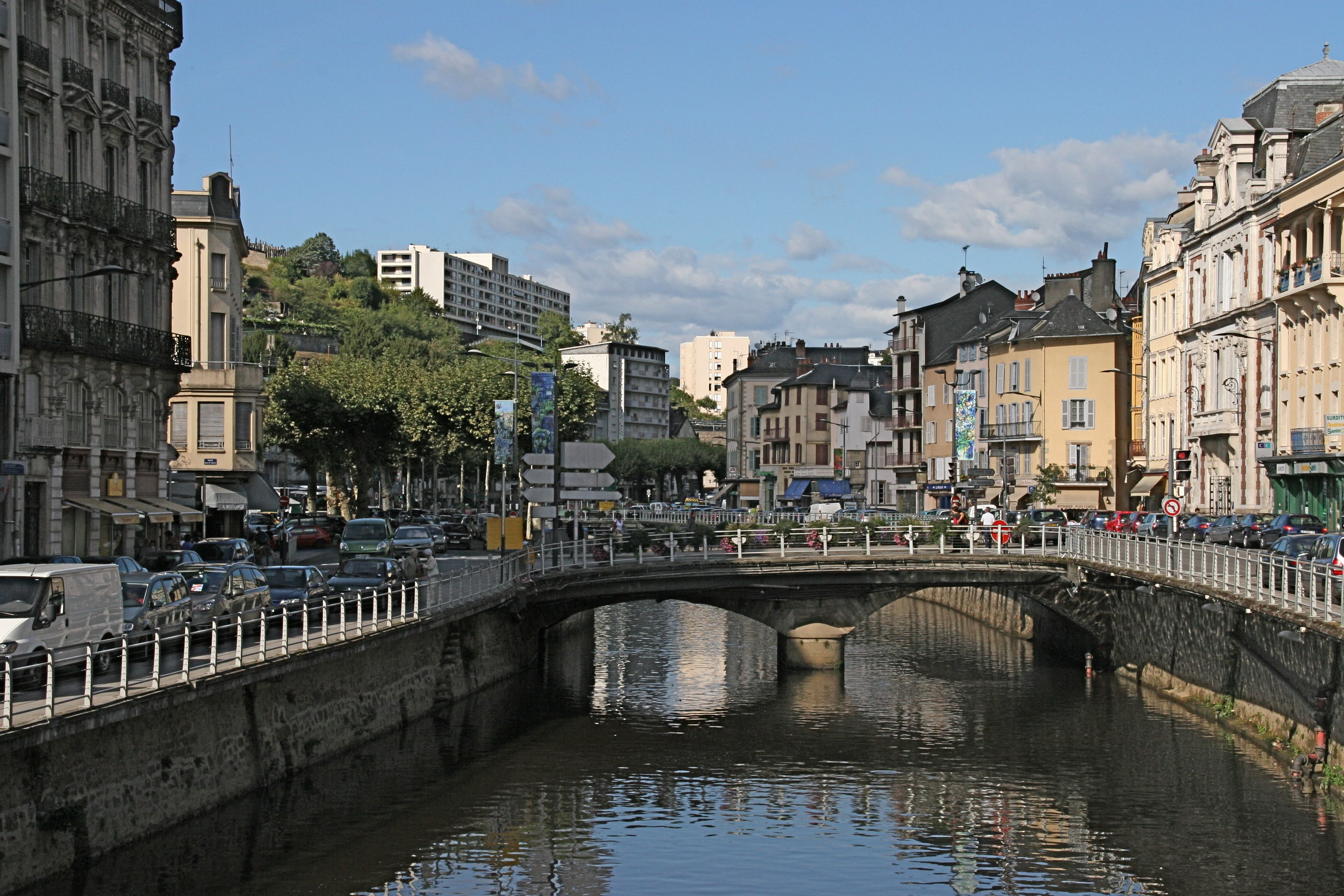 Tulle: Town with river Corrèze